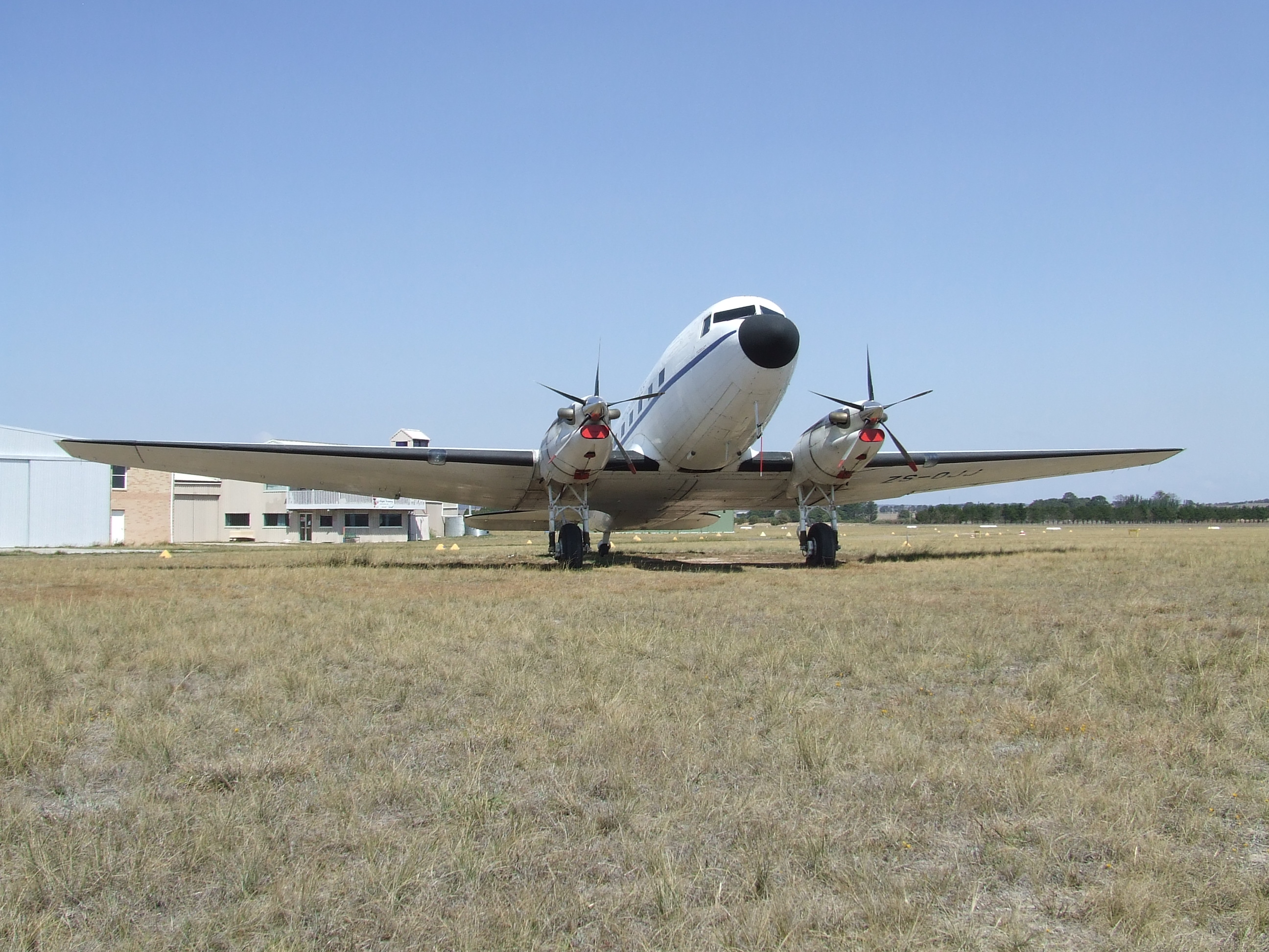 The AMI DC-3 features Pratt & Whitney Canada PT6 engines instead of the original radial engines, and a longer fuselage than the original aircraft.The plane once served the S A Air Force and while flying for the South African Air Force in 1986 was hit by a SA 7 missile. Its tail control surfaces were destroyed but all the same the plane came to a safe landing. The incident can be found on the Dakota Association od South Africa ( DASA) under the CN 32961. Digital image of DC-3TP ZS-OJJ taken by YSSYguy at Goulburn Airport, New South Wales on 4 February 2007, and uploaded for use in the Pratt & Whitney Canada PT6 article.